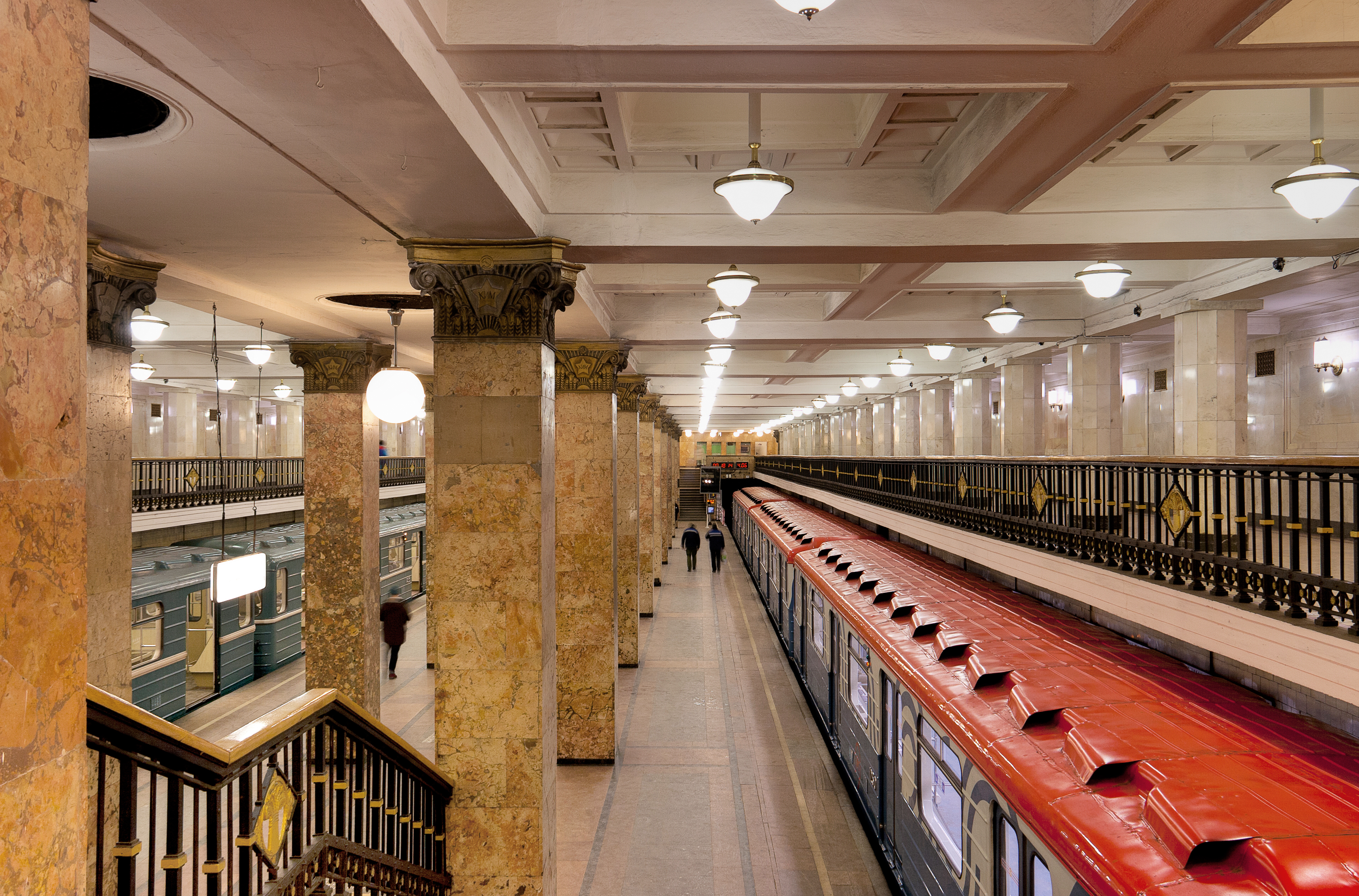 Moscow Metro, Komsomolskaya-Radialnaya Station